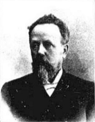 Polish lawyer, lawyer in St. Petersburg